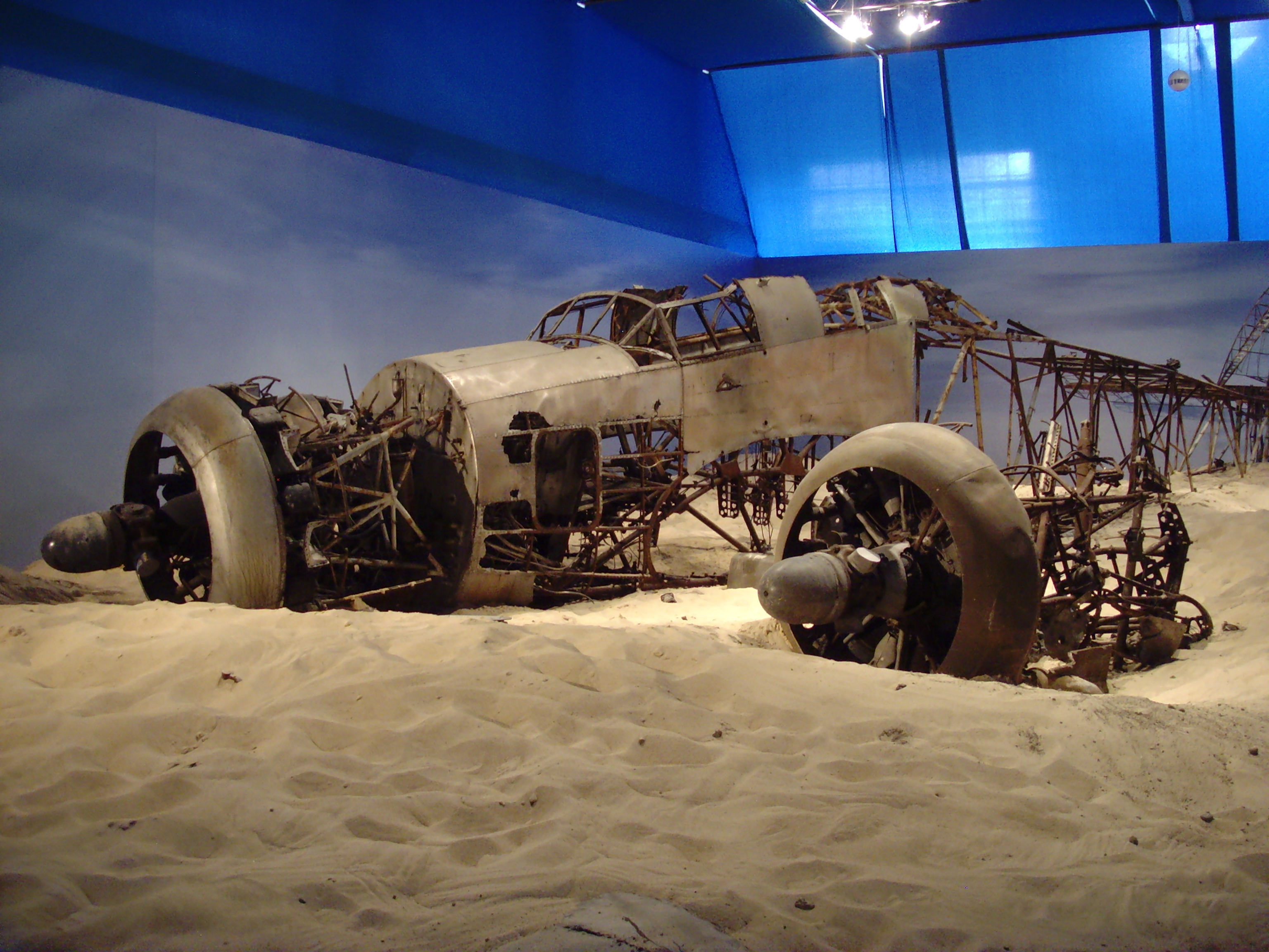 Wreck of Savoia-Marchetti SM.79 displayed in Volandia museum.